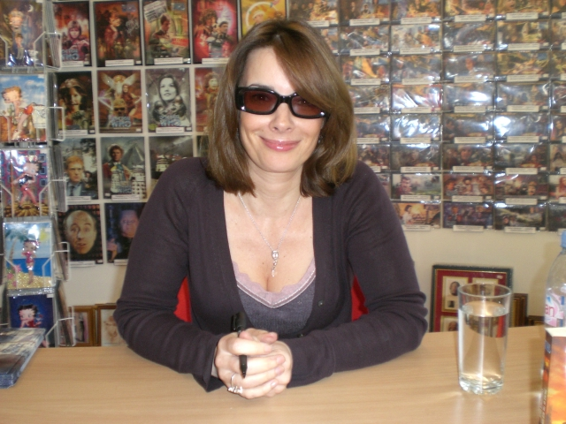 Nicola Bryant at The Television & Movie Store, Norwich, England on 24 May 2008.